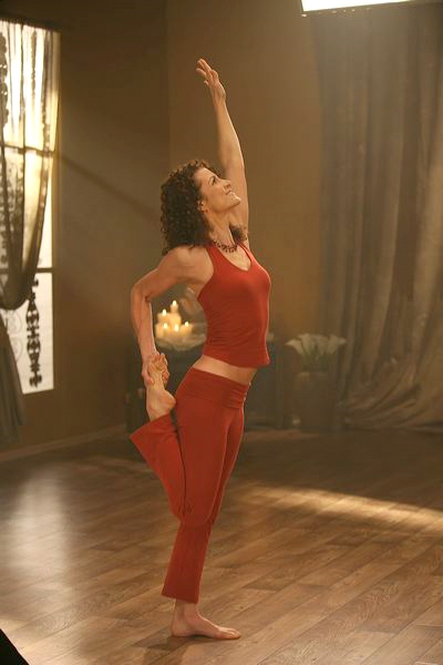 Desiree Rumbaugh performing a therapeutic yoga move.